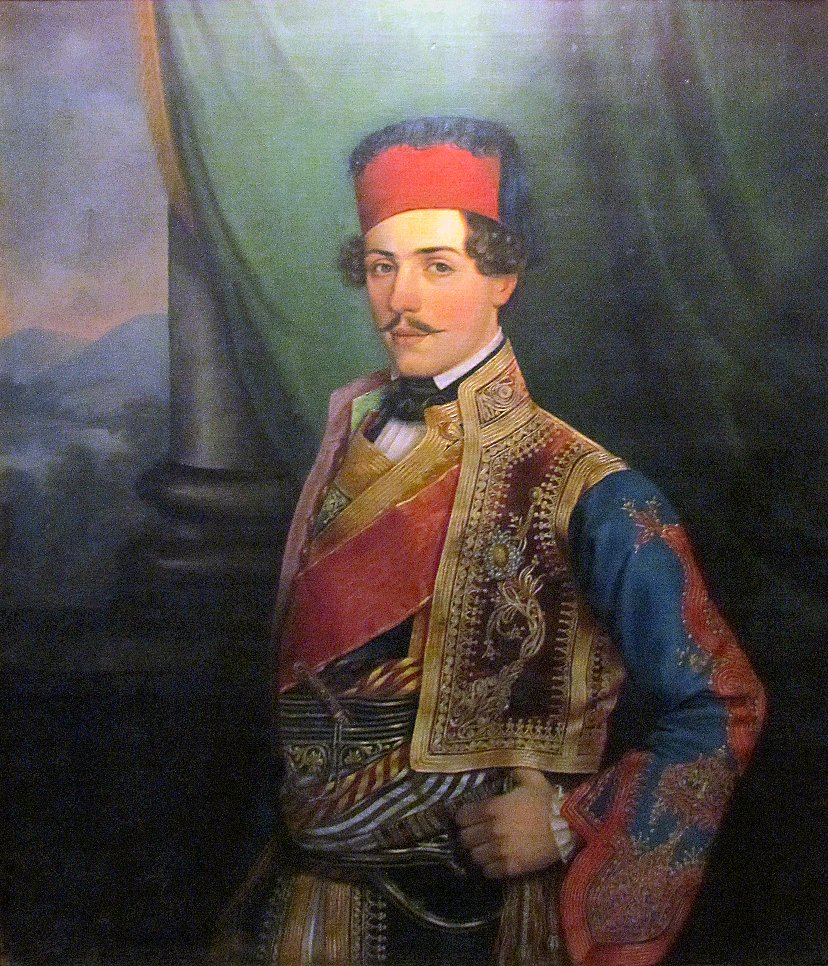 Jovan Popović, Prince Mihailo Obrenović 1841